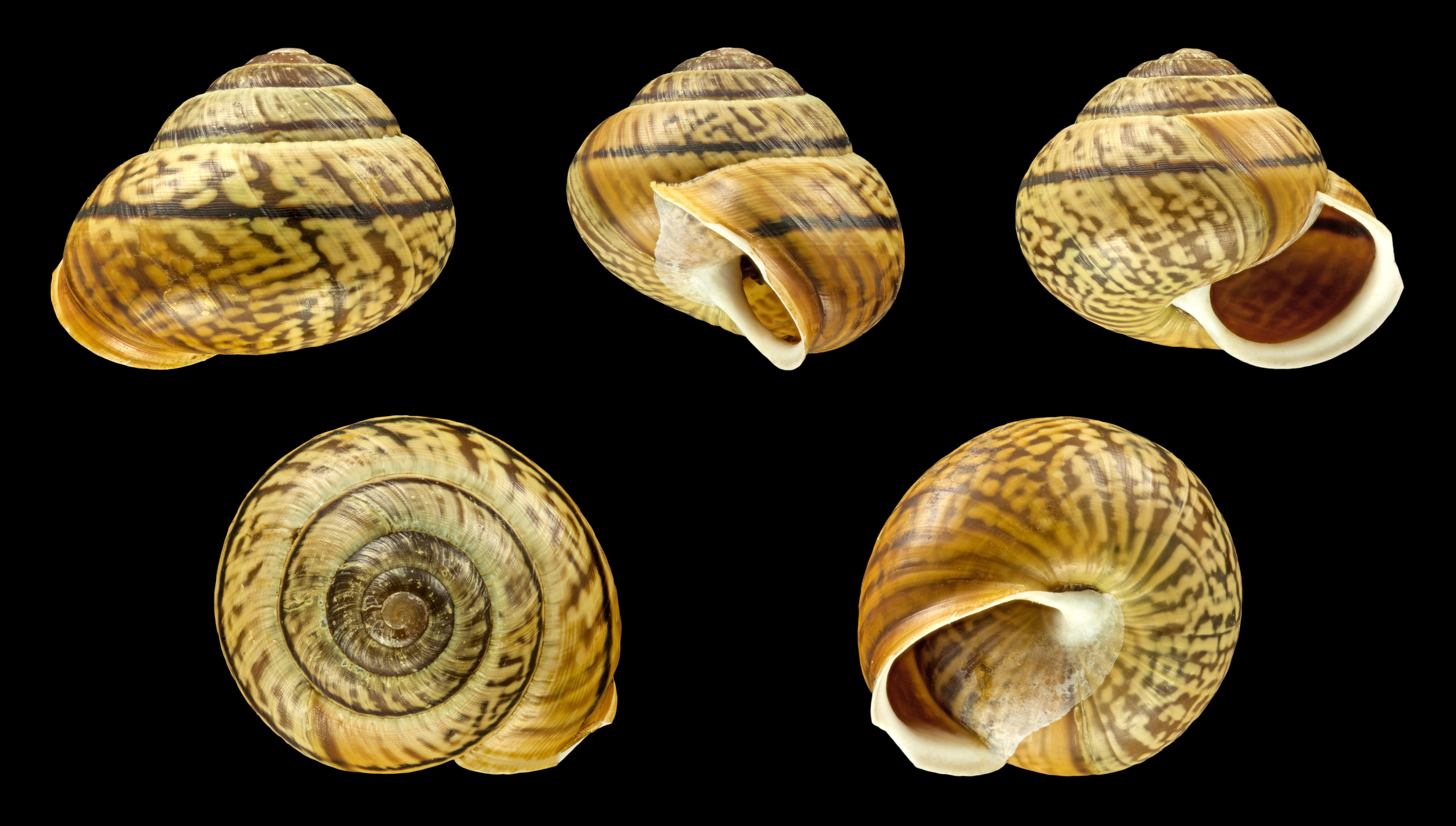 Arianta arbustorum alpicola (Ferussac, 1821), Alpine Copse Snail; Diameter 1.6 cm; Originating Summit station of the Karwendelbahn (2244 m a.s.l.), Mittenwald, Germany 47°25′49.57″N 11°17′46.01″E / 47.4304361°N 11.2961139°E; Shell of own collection, therefore not geocoded.